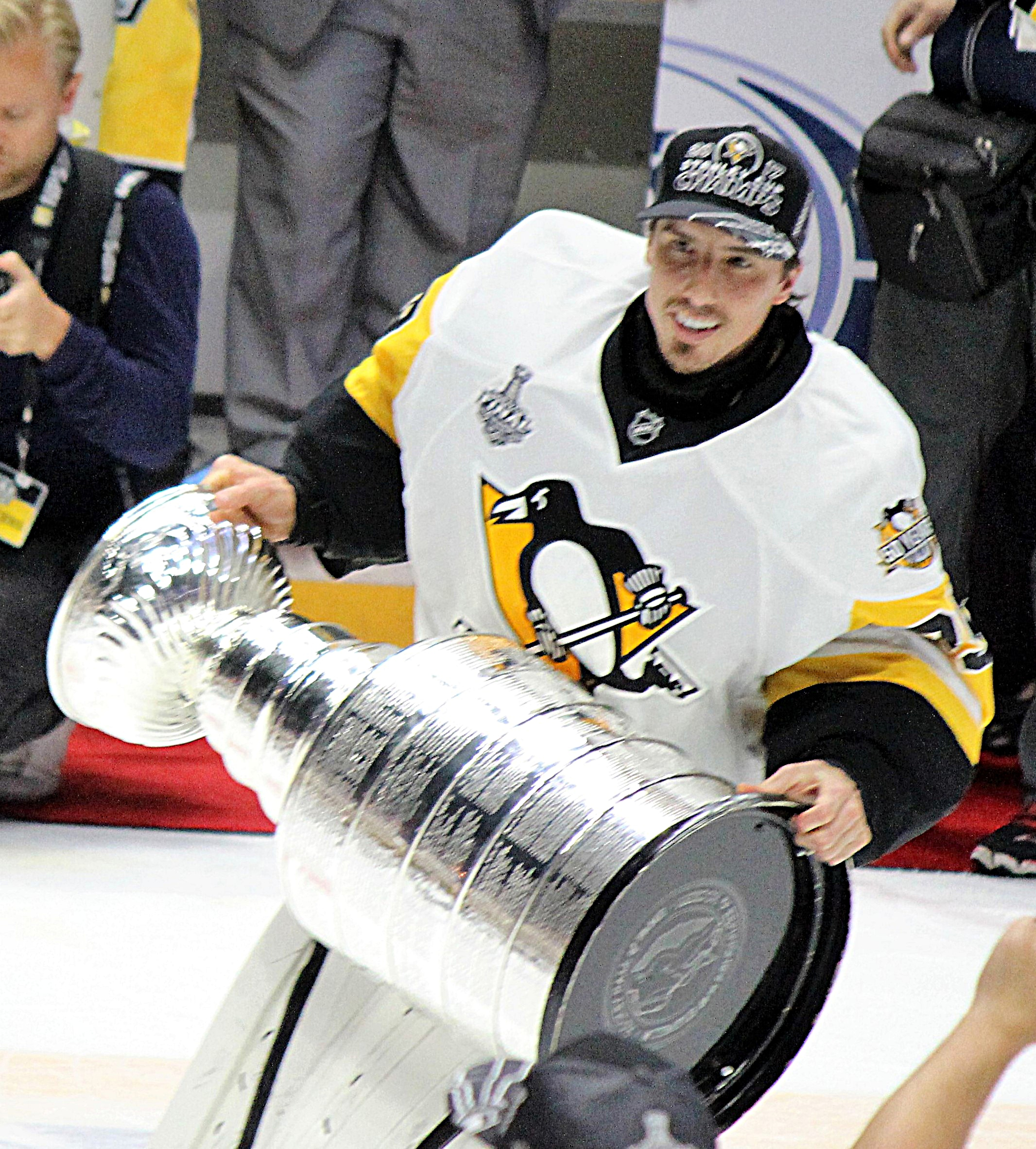 Pittsburgh Penguins goalie Marc-Andre Fleury skating with the Stanley Cup following the Pens 2-0 victory over the Nashville Predators in game 6 of the 2017 Stanley Cup Final, June 11, 2017, at Bridgestone Arena in Nashville, TN. Fleury backed up Matt Murray during the Cup Final after backstopping the Pens to wins in their first and second round series.